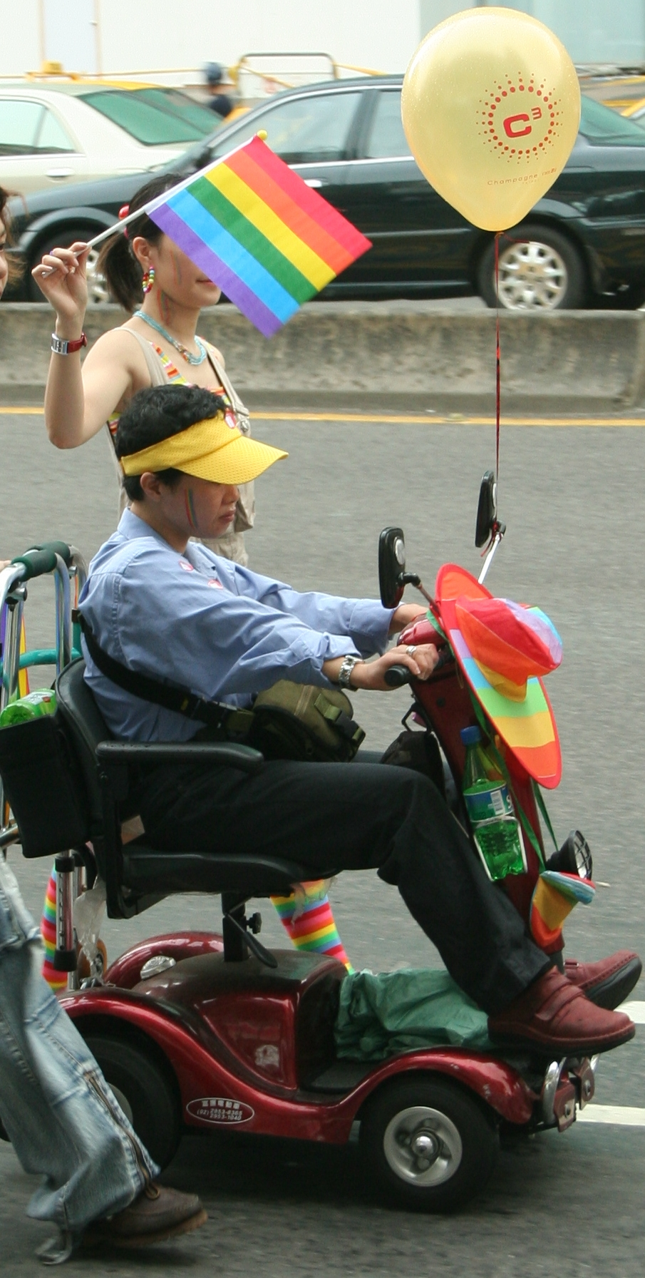 A disabled person on an electric scooter in front of MRT Zhongxiao Fuxing Station on Taiwan Pride 2006.